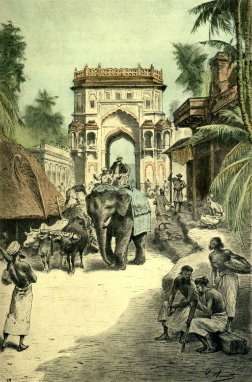 An illustration from Jules Verne's novel "The Steam House" drawn by Léon Benett.